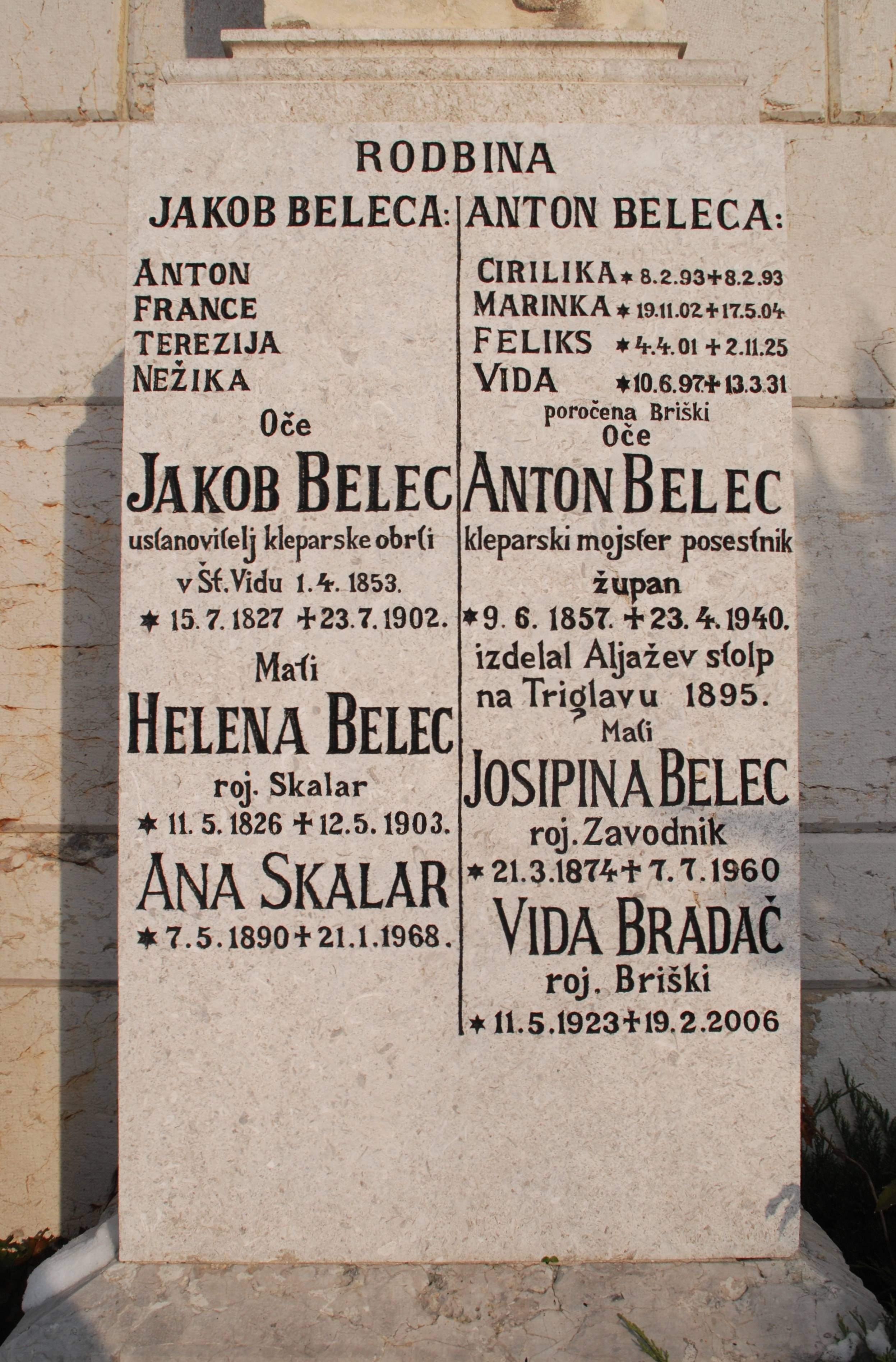 The tombstone of the Belec family at the cemetery in Šentvid pri Ljubljani.